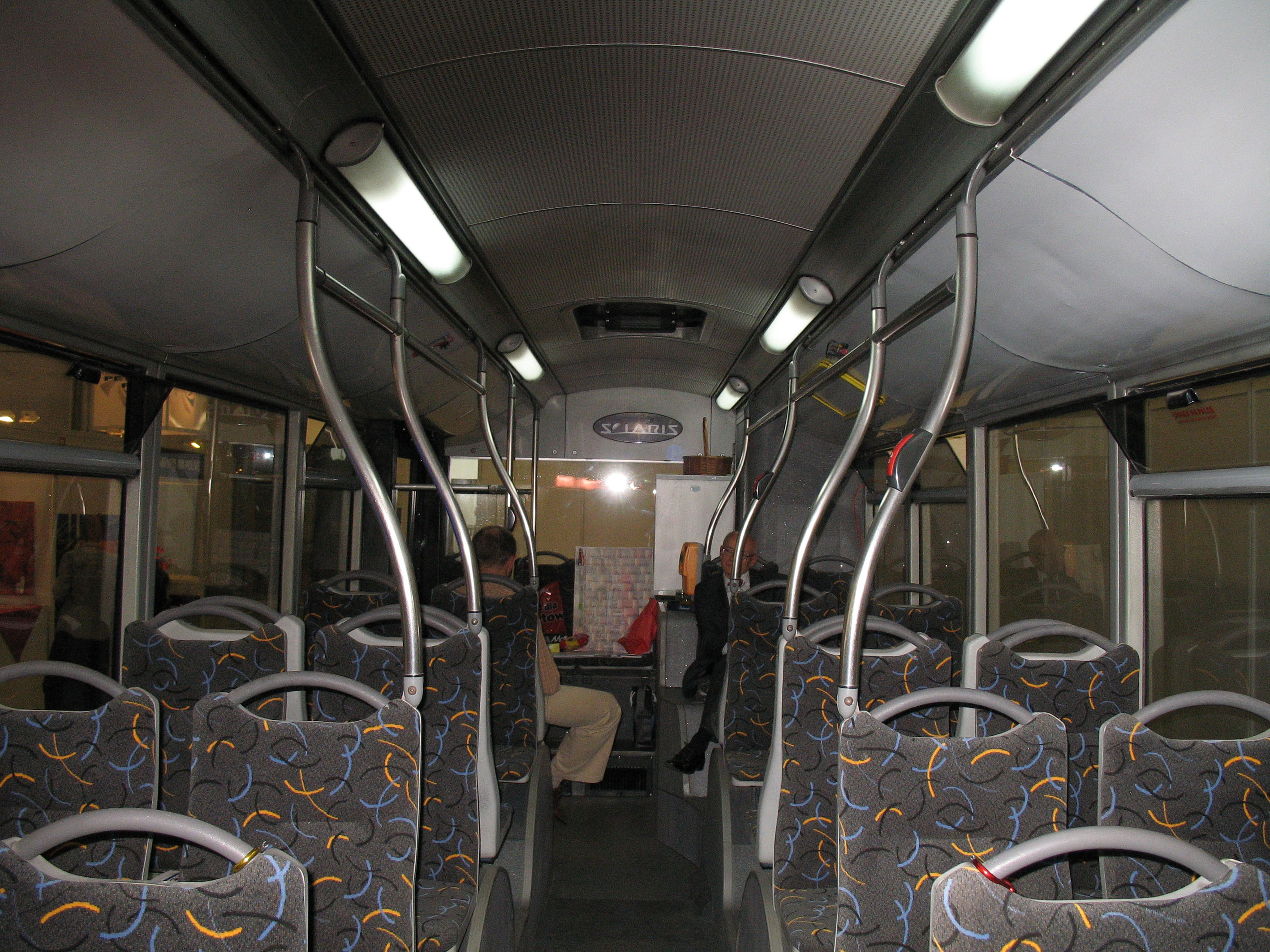 Solaris Urbino 15 Mk1 bus (reg. WZ 6077F) interior in Kielce, Poland. Built 2000, Bus & Truck Service (BTS) from Wyględy operator. Transexpo 2011.